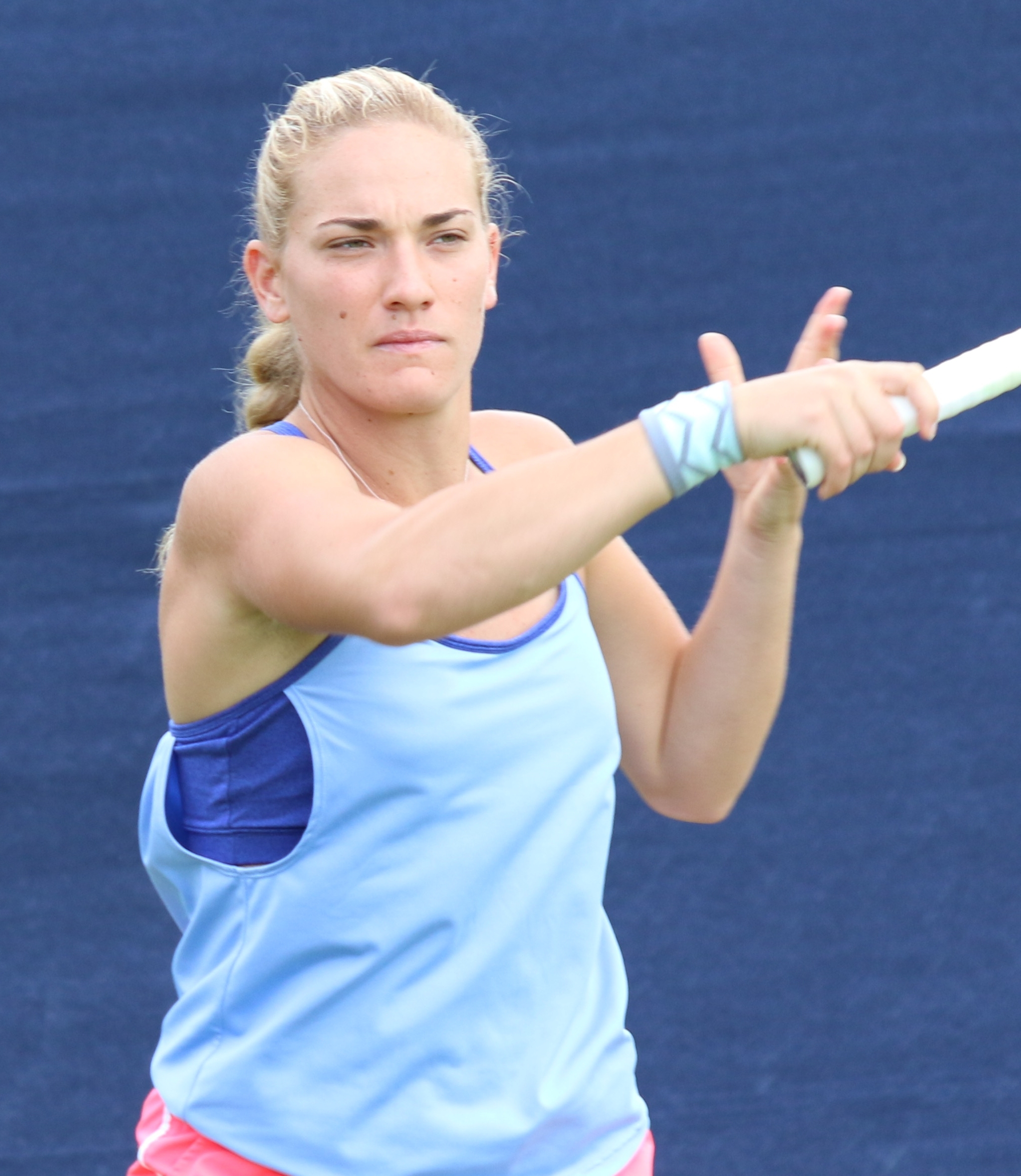 Tímea Babos at the 2016 DFS Classic, Birmingham (9)